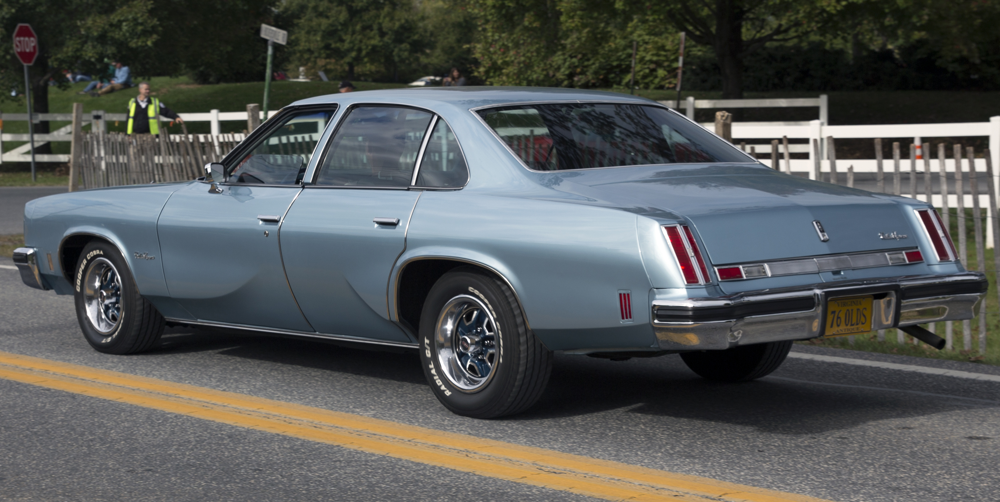 1976 Oldsmobile Cutlass Supreme four-door sedan leaving Hershey 2019.